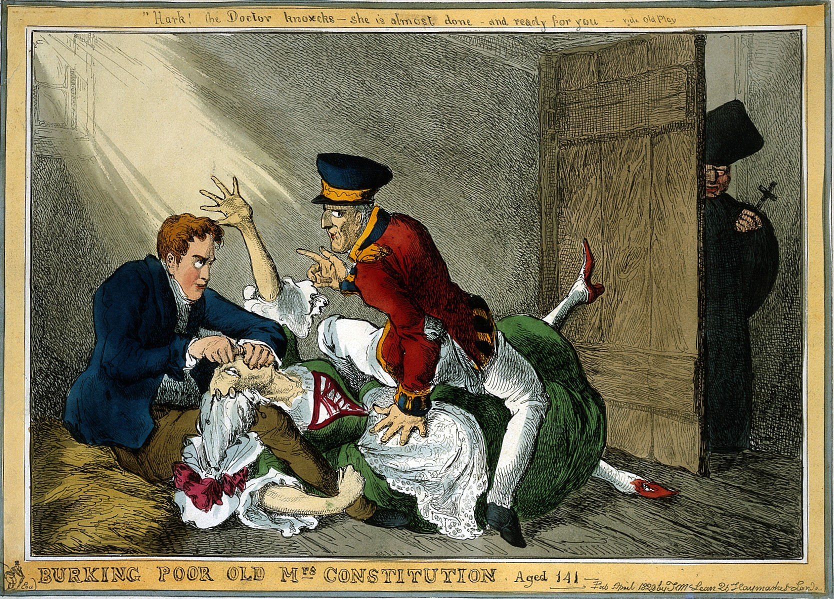 Burke and Hare suffocating Mrs Docherty for sale to Dr. Knox; satirizing Wellington and Peel extinguishing the Constitution for Catholic Emancipation. Iconographic Collections Keywords: Body-snatchers; Criminal; Murder; Resurrectionists; Criminals; Homicide; Robert Peel; Arthur Wellesley; William Burke; William Hare; Mrs Docherty; Robert Knox; William Heath